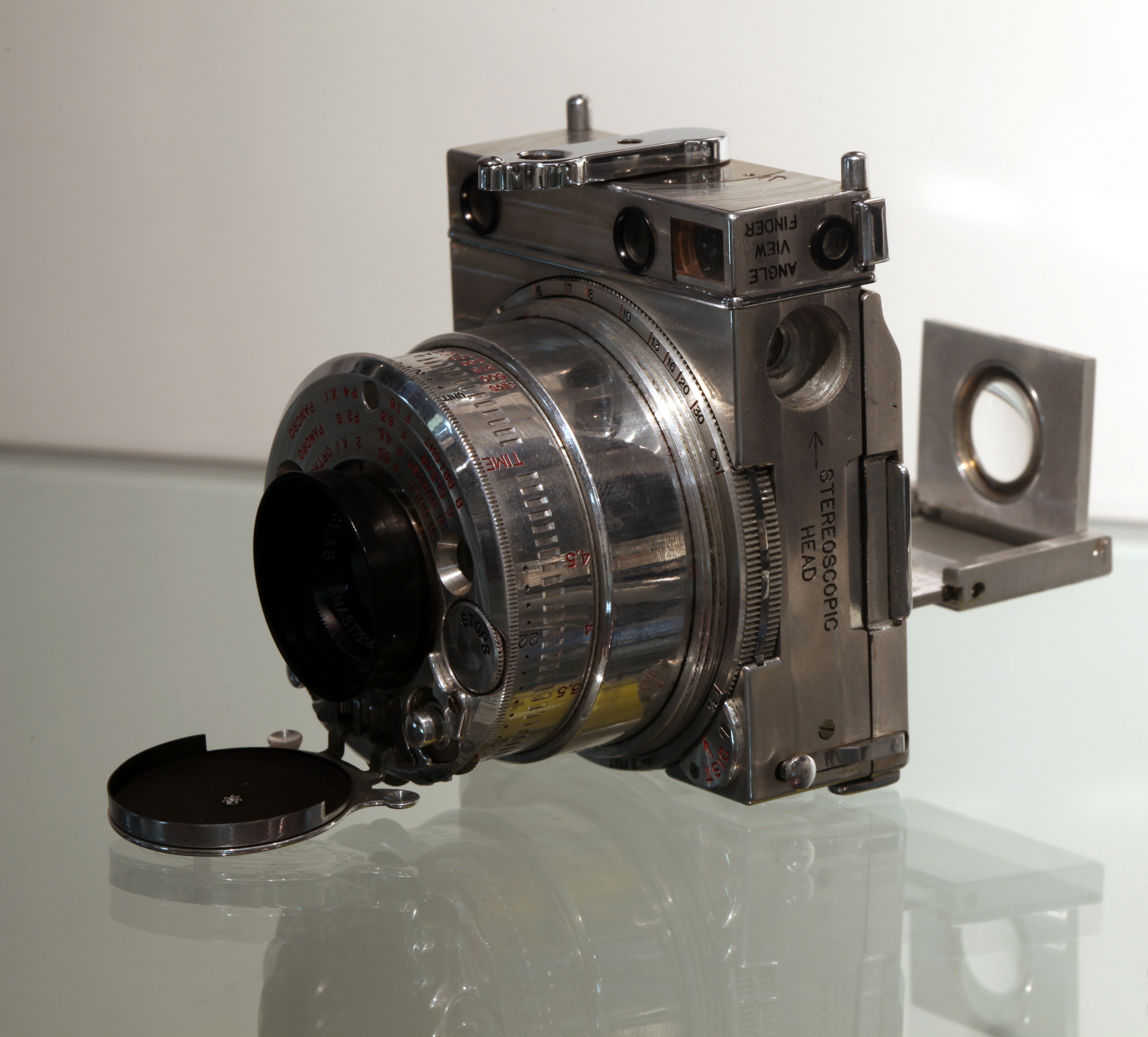 Compass camera